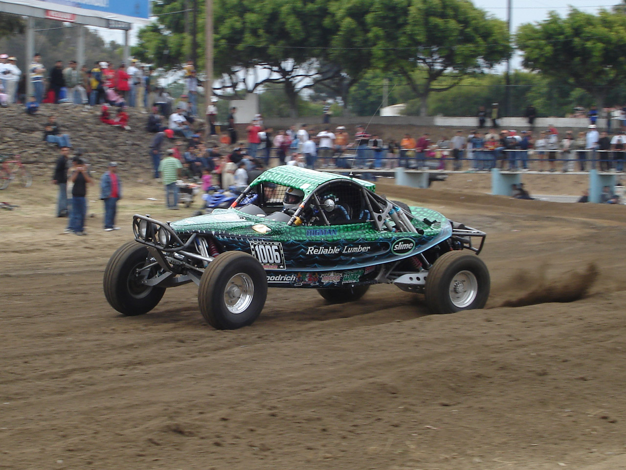 SCORE Class 10 turning into the Ensenada river at the start of the 2007 Baja 500.